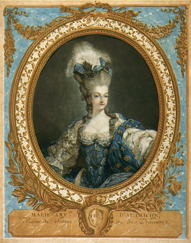 France, 1777 Prints; engravings Color etching and engraving with gold leaf, printed on two sheets Purchased with funds provided by the Austin and Irene Young Trust by exchange (AC1996.127.1) Prints and Drawings